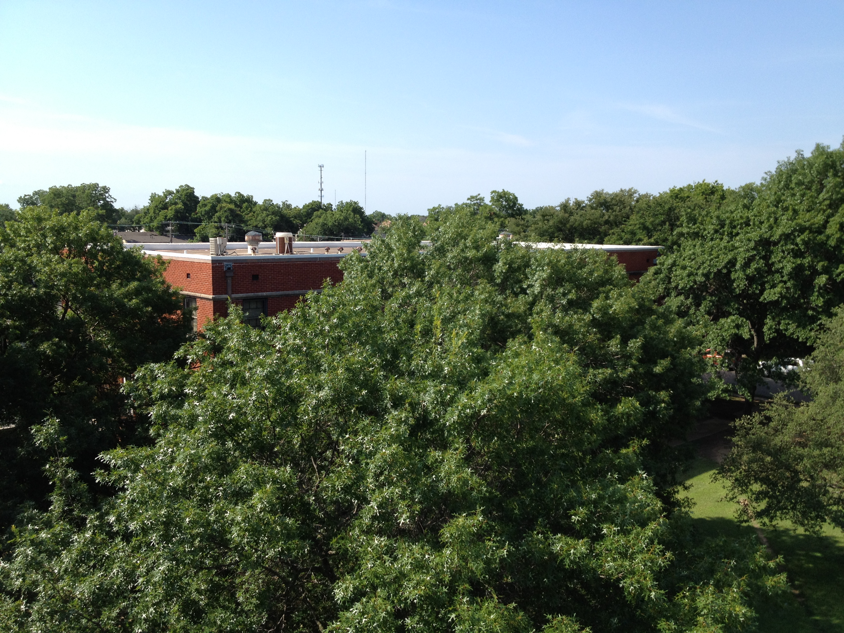 The Leushner Building sits on the campus of Seventh and James Baptist Church in Waco, Texas